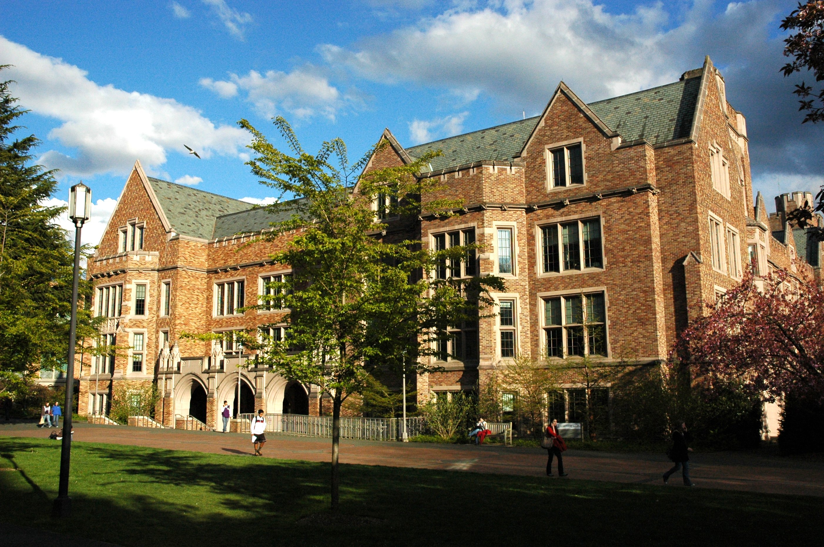 Mary Gates Hall, home to infomatics, and the iSchool, Information School, University of Washington, Seattle, Washington, USA